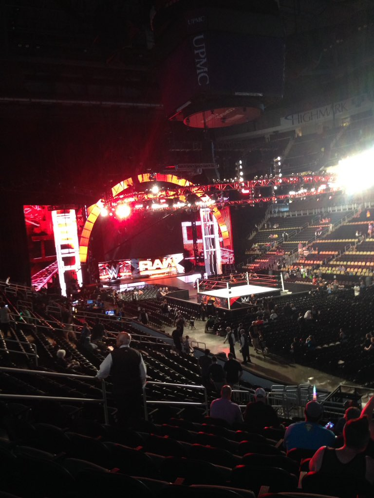 WWE Raw stage set used July 25, 2016-August 15, 2016. This is the same set that was used for Summerslam in 2012 and 2013.